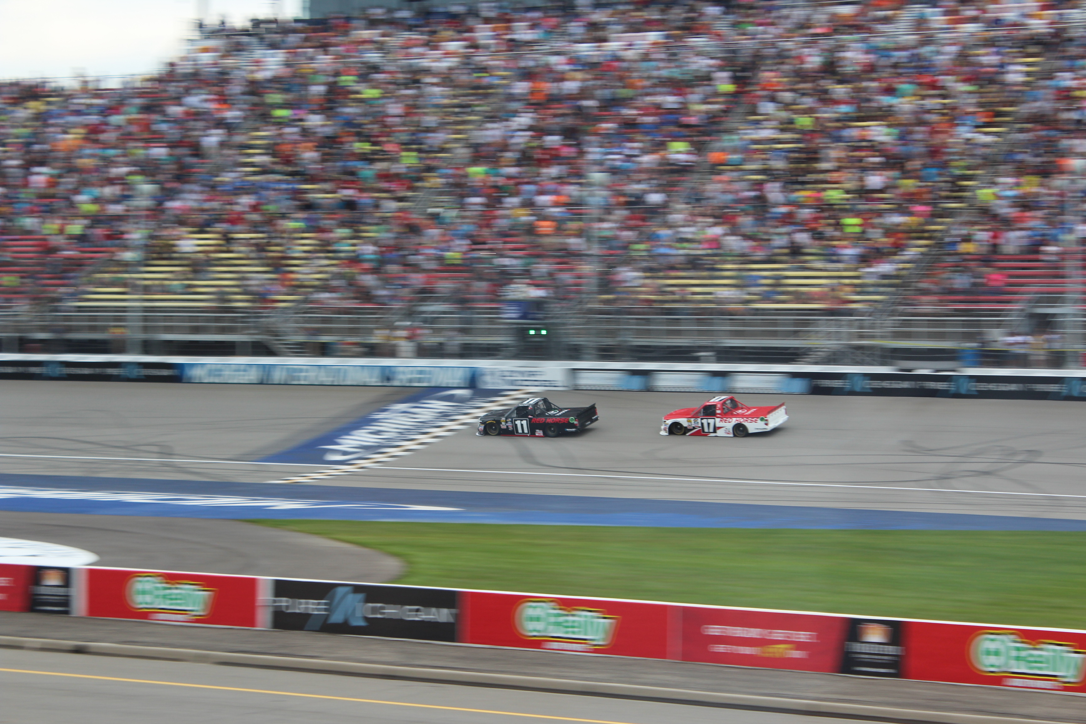 Brett Moffitt pulls-off an upset, beating both Timothy Peters and William Byron to win the Cooper-Standard "Career For Veterans" 200 at Michigan International Speedway.